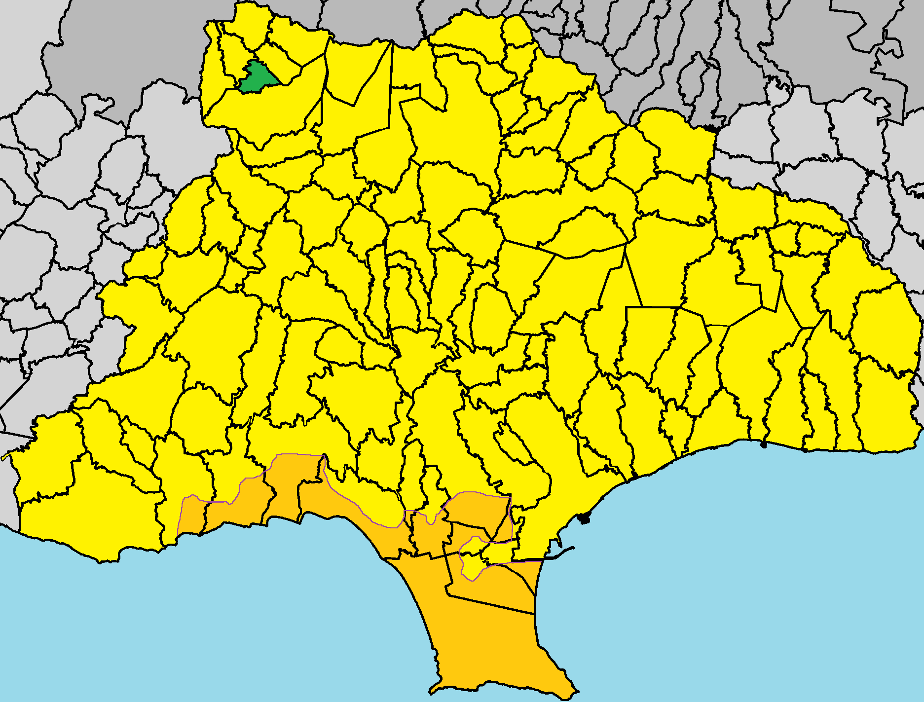 Agios Dimitrios, Cyprus in Limassol District.